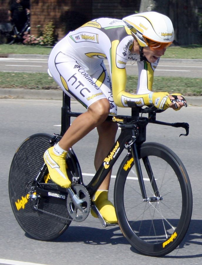 Thomas Lövkvist at the 2009 Eneco Tour prologue